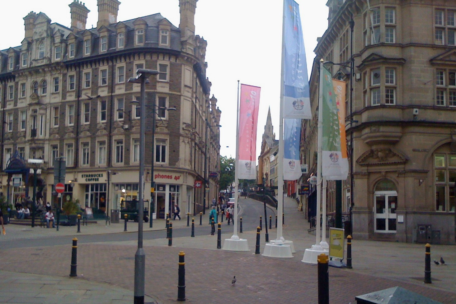 Westgate Square, Newport